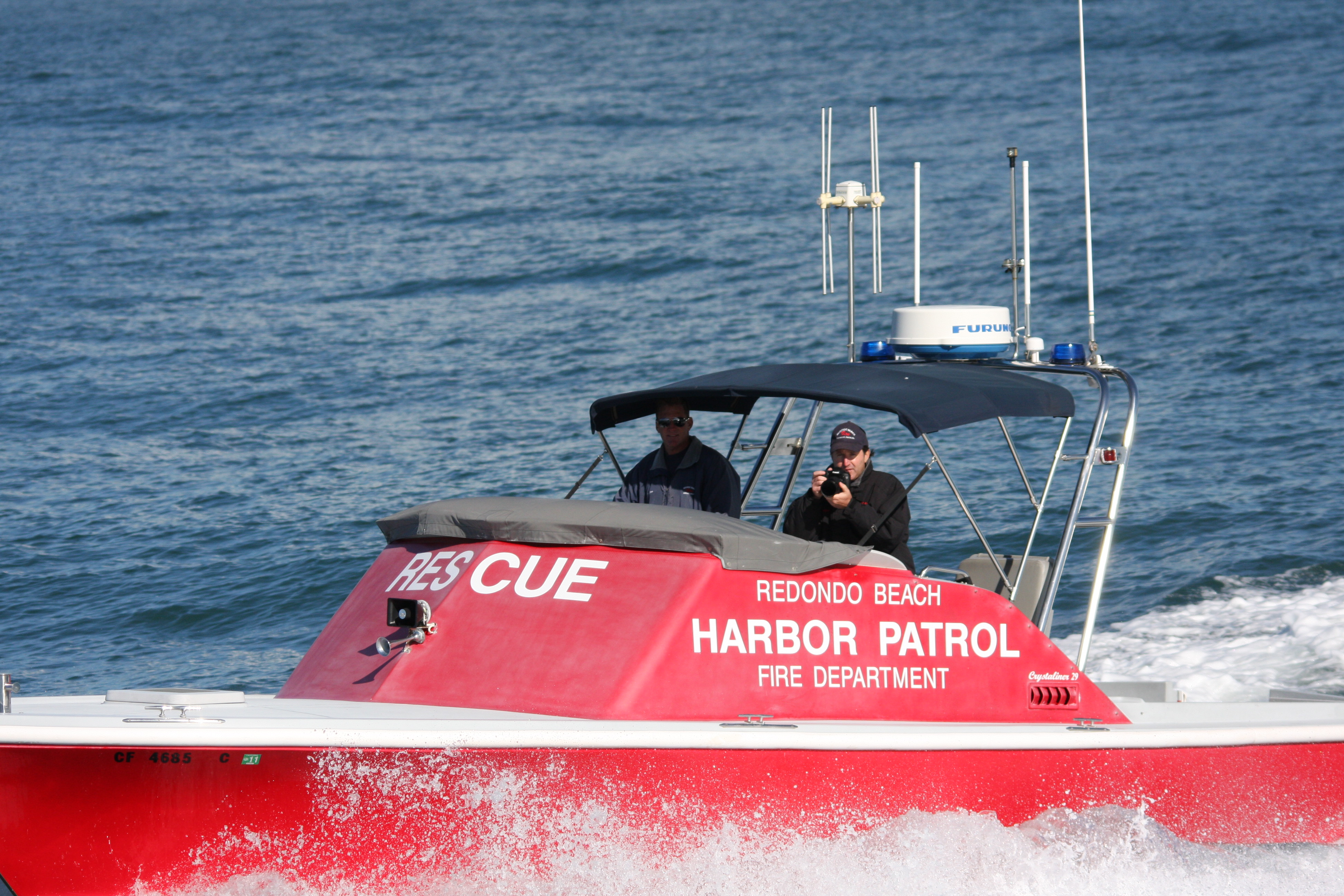 Redondo Beach California Fire Department Harbor Patrol in 2010.